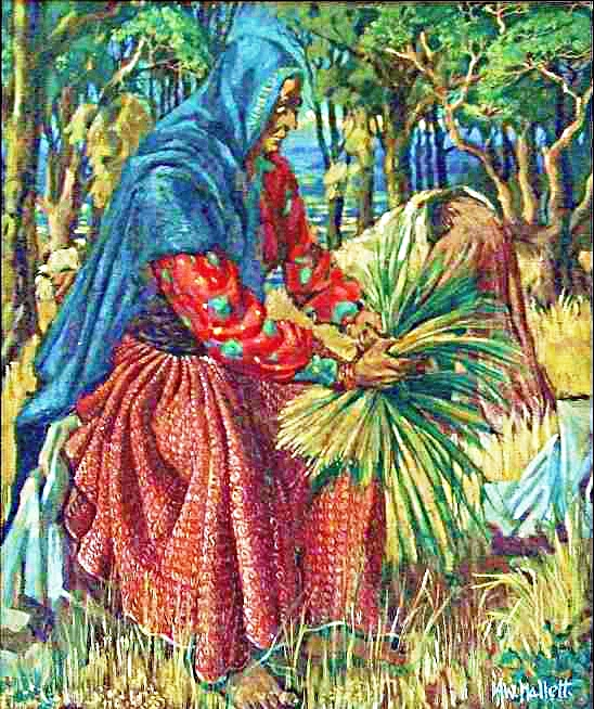 I took this photo of a painting which I commissioned and bought from Alfred Hallett c. 1980. Alfred Hallett died in 1986. Oils on board. 600 X 510 mm.